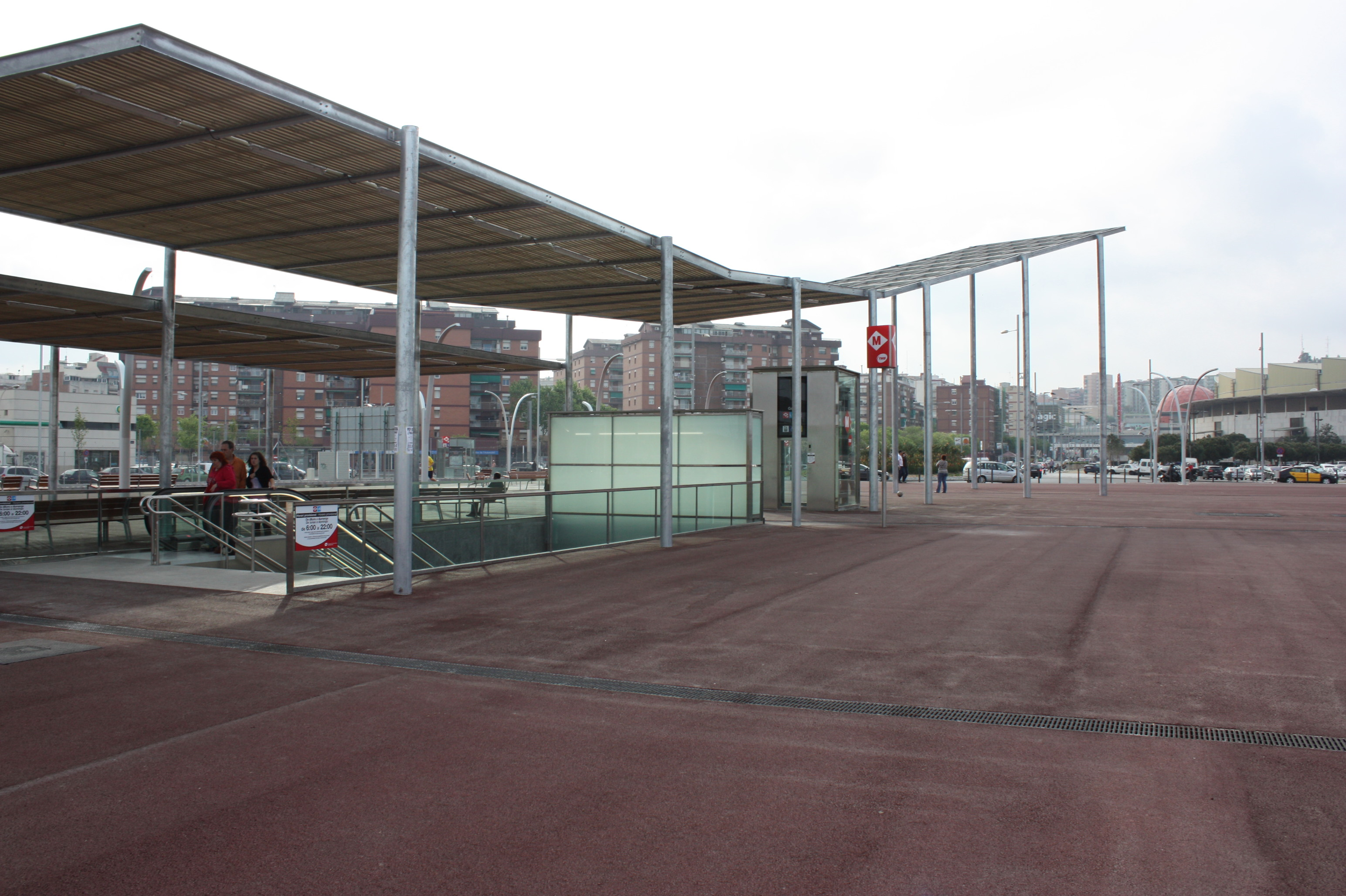 Gorg station (L10) Barcelona Metro.